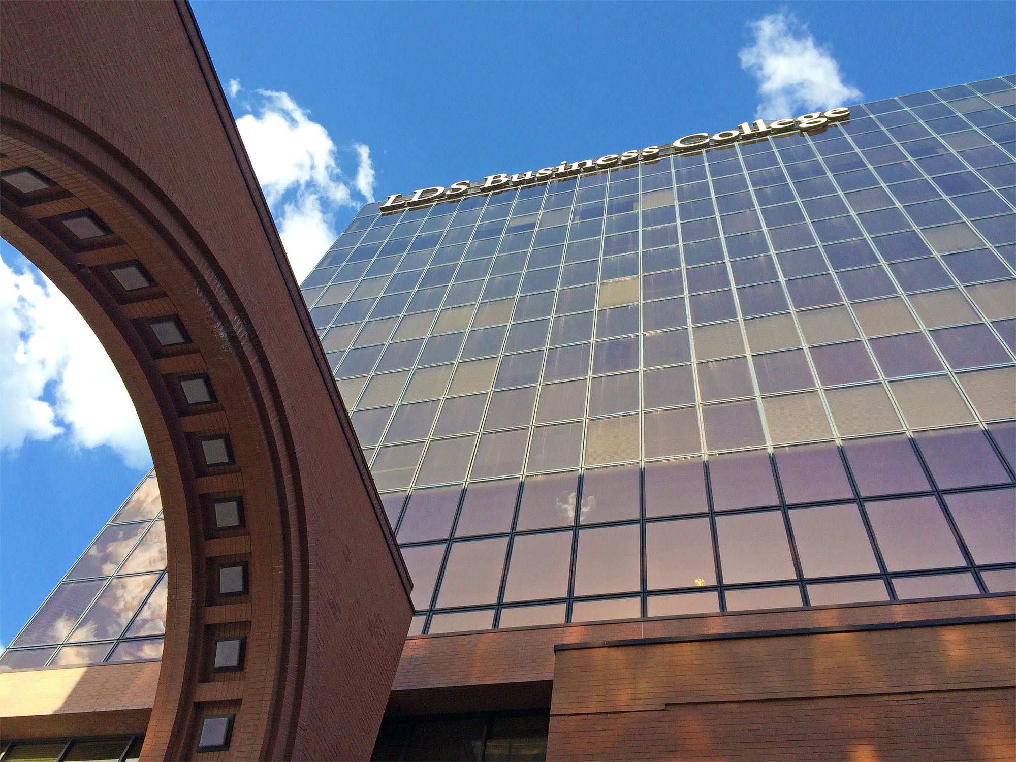 LDS Business College tower in Salt Lake City, Utah, USA.